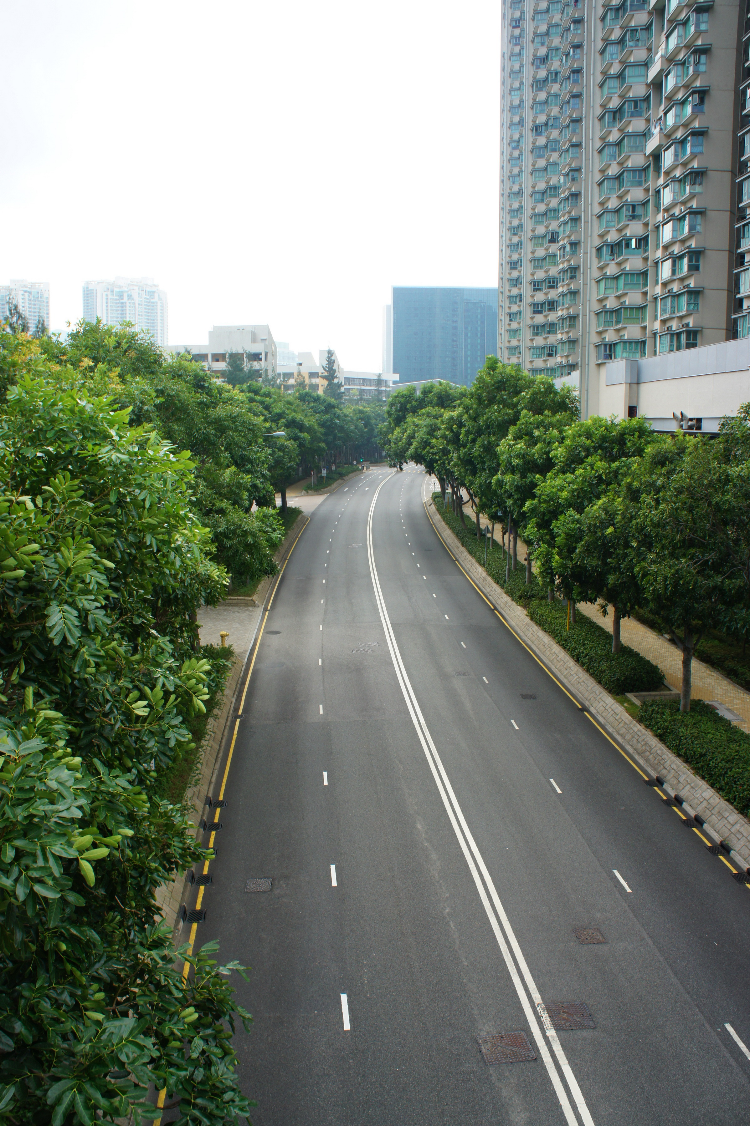 Man Tung Road, Tung Chung, New Territories, Hong Kong.